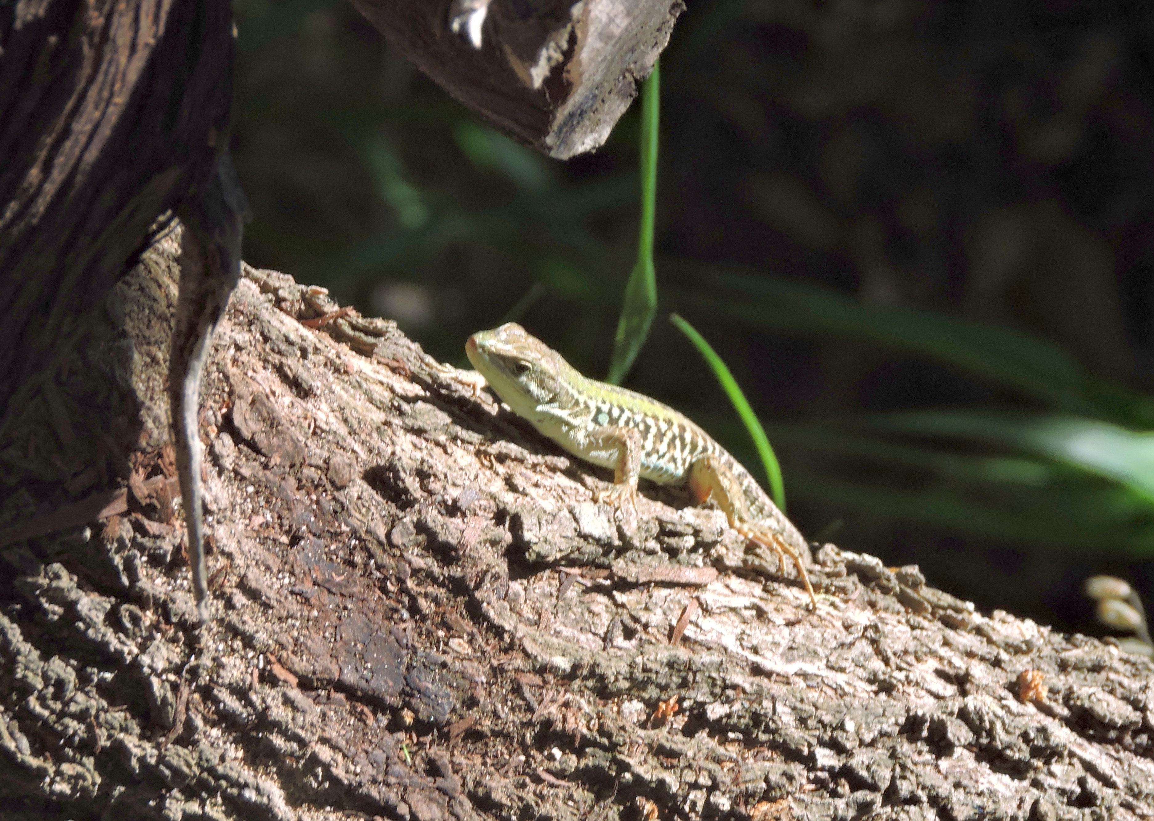 Lizard on the foothpath leading to Punta Ala (Tuscany, Italy)